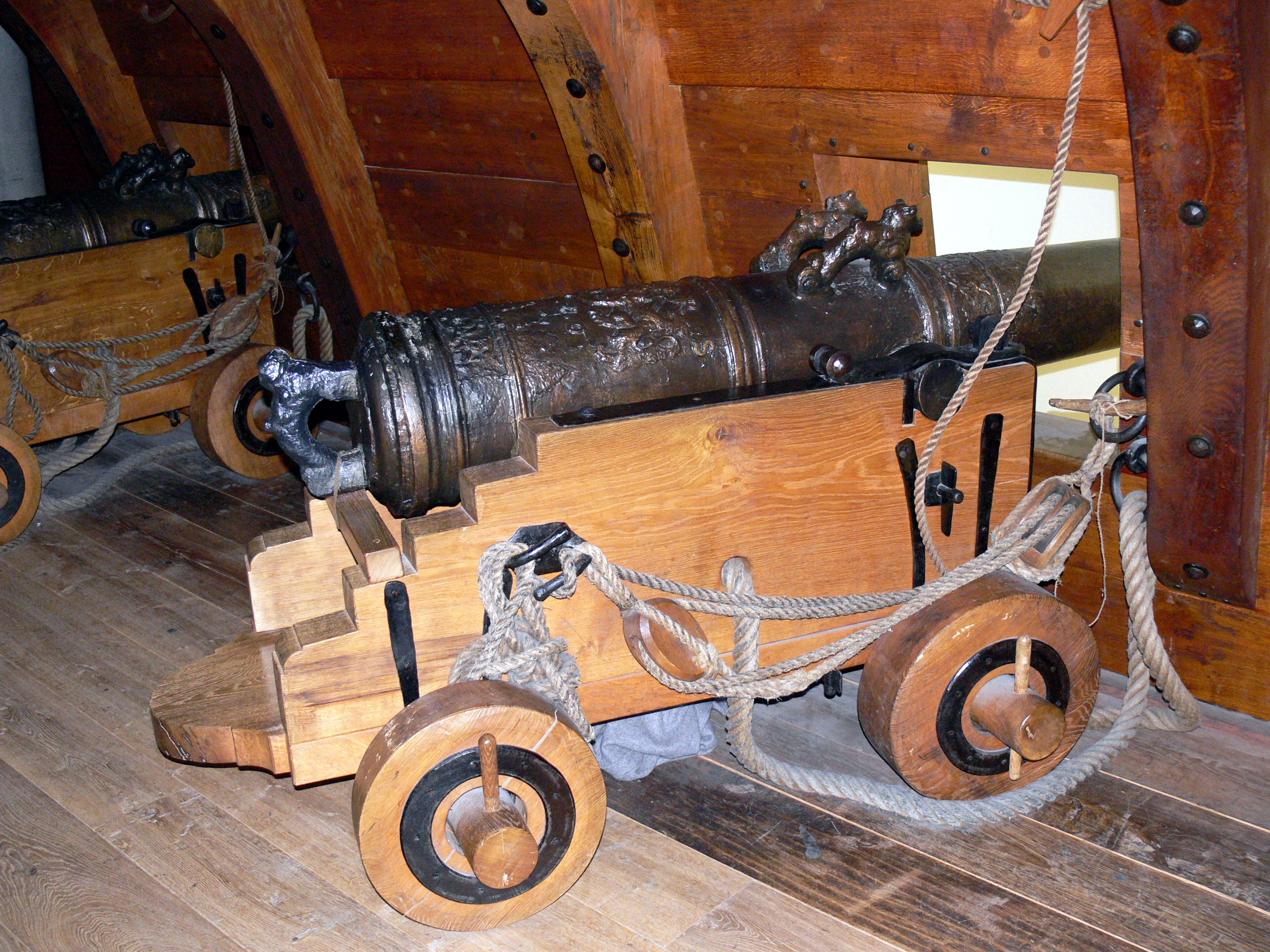 Vasa ship ( 1627 ). Life-size reconstruction of the battery deck.